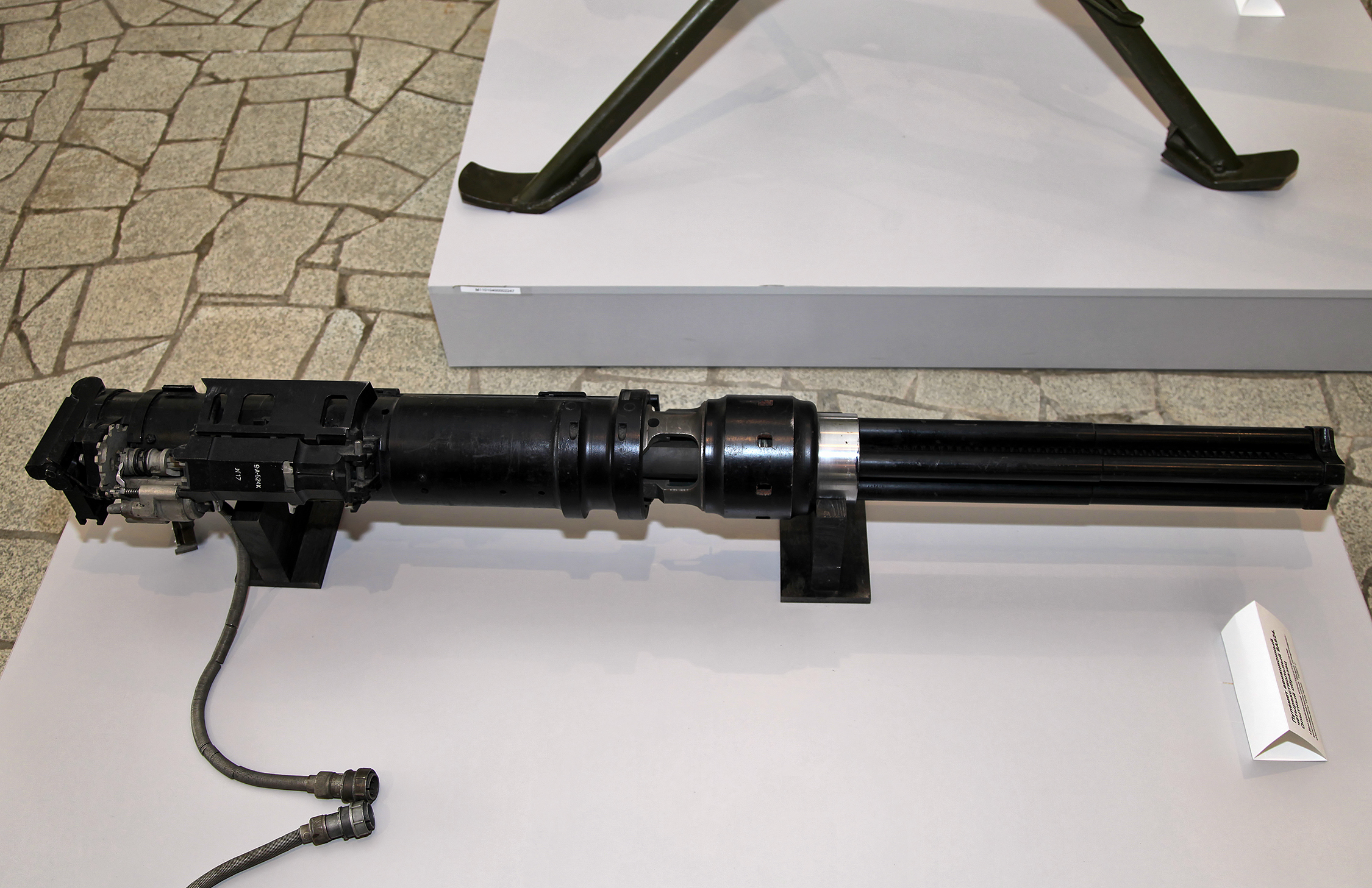 YaKB-12.7 (9A624) aviation heavy machine gun